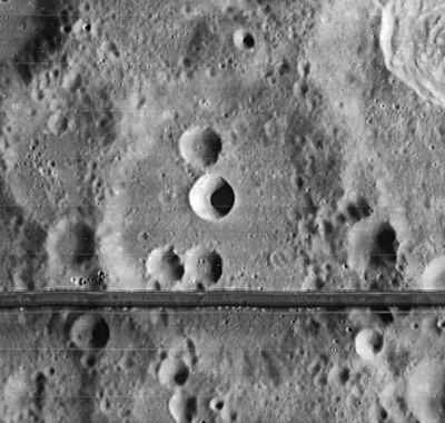 Rabbi Levi lunar crater - image LO-iv-088-h3